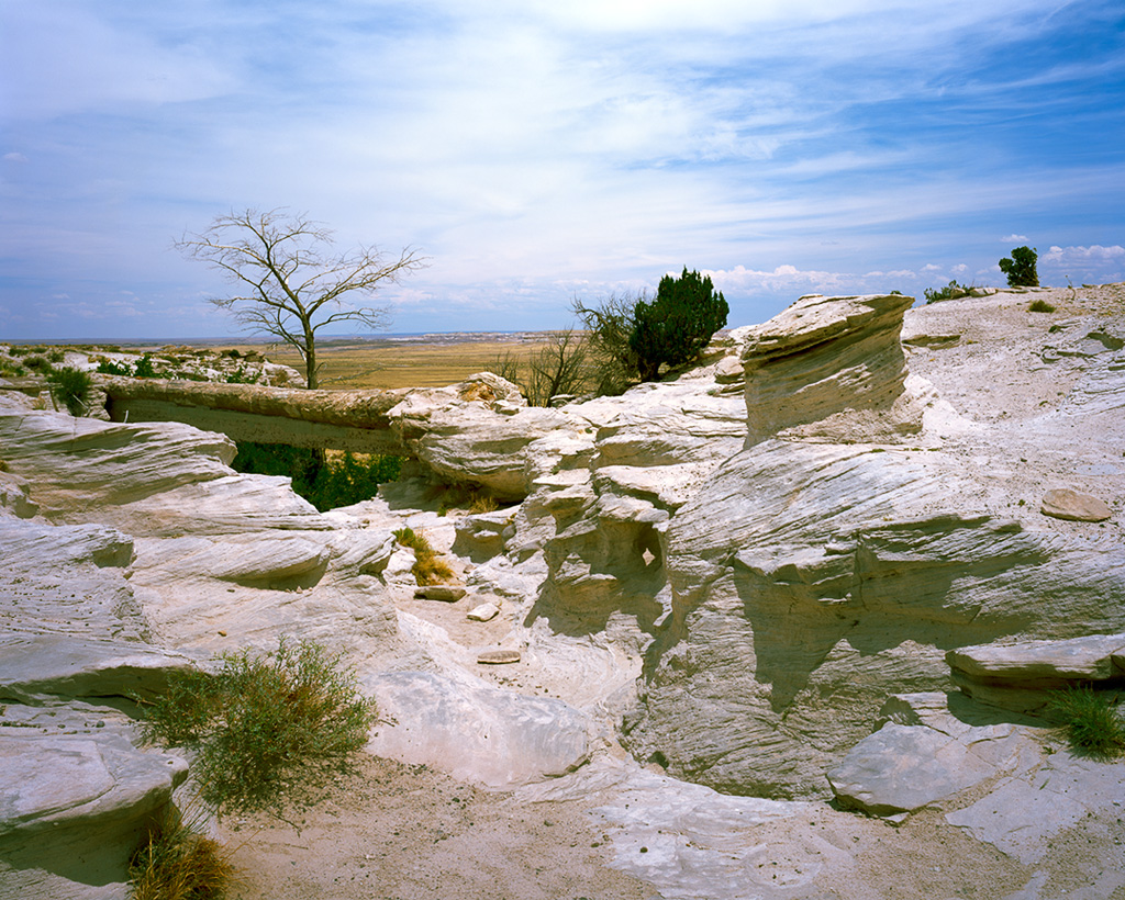 The Agate Bridge photographed by Doug Dolde at the Petrified Forest National Park in Arizona. Arca Swiss 4x5 view camera, Fujichrome Provia 100F transparency film. More images from this location at